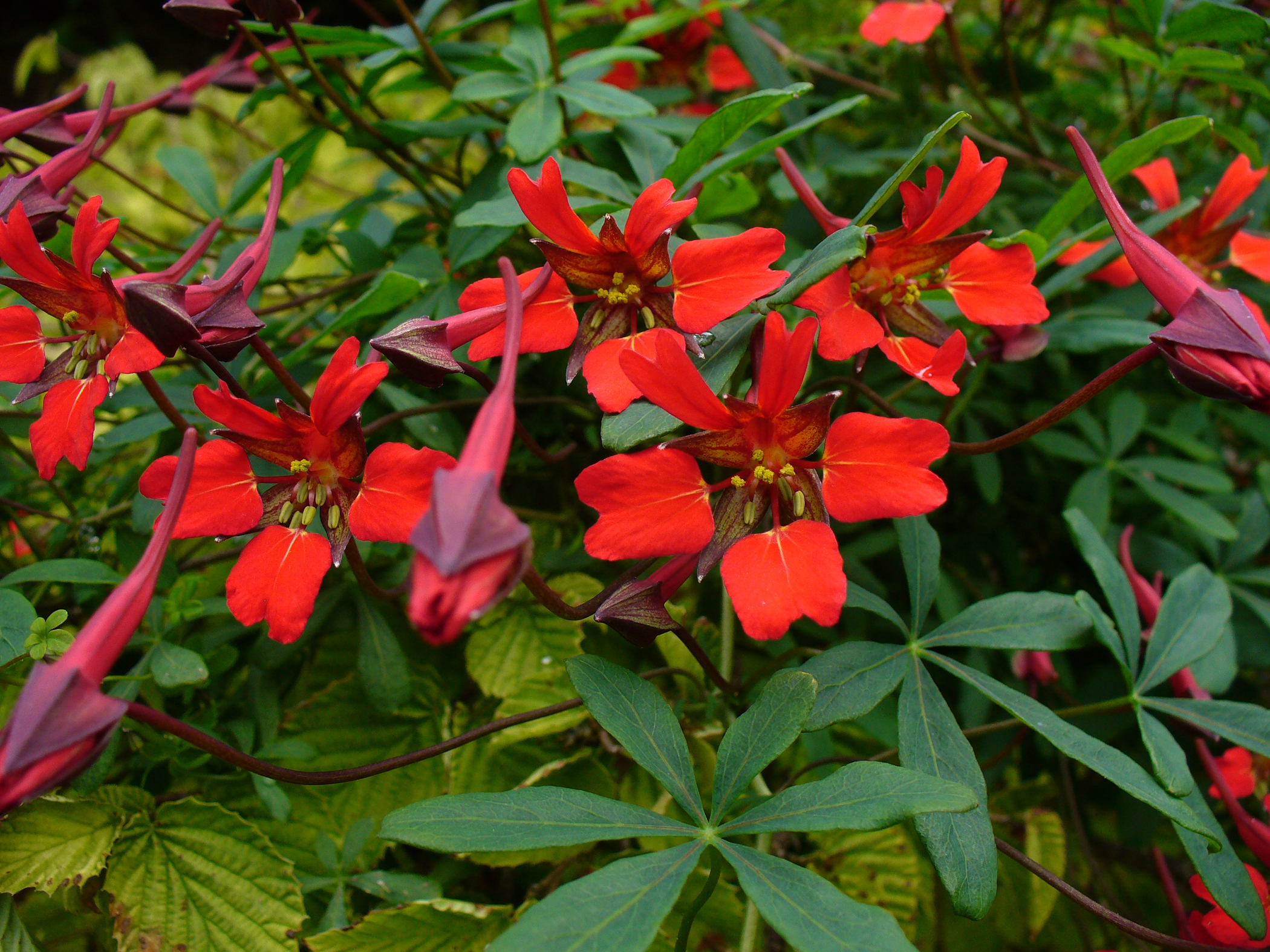 The Garden House, Buckland Monachorum, Devon, UK. Former estate of Lionel Fortescue.